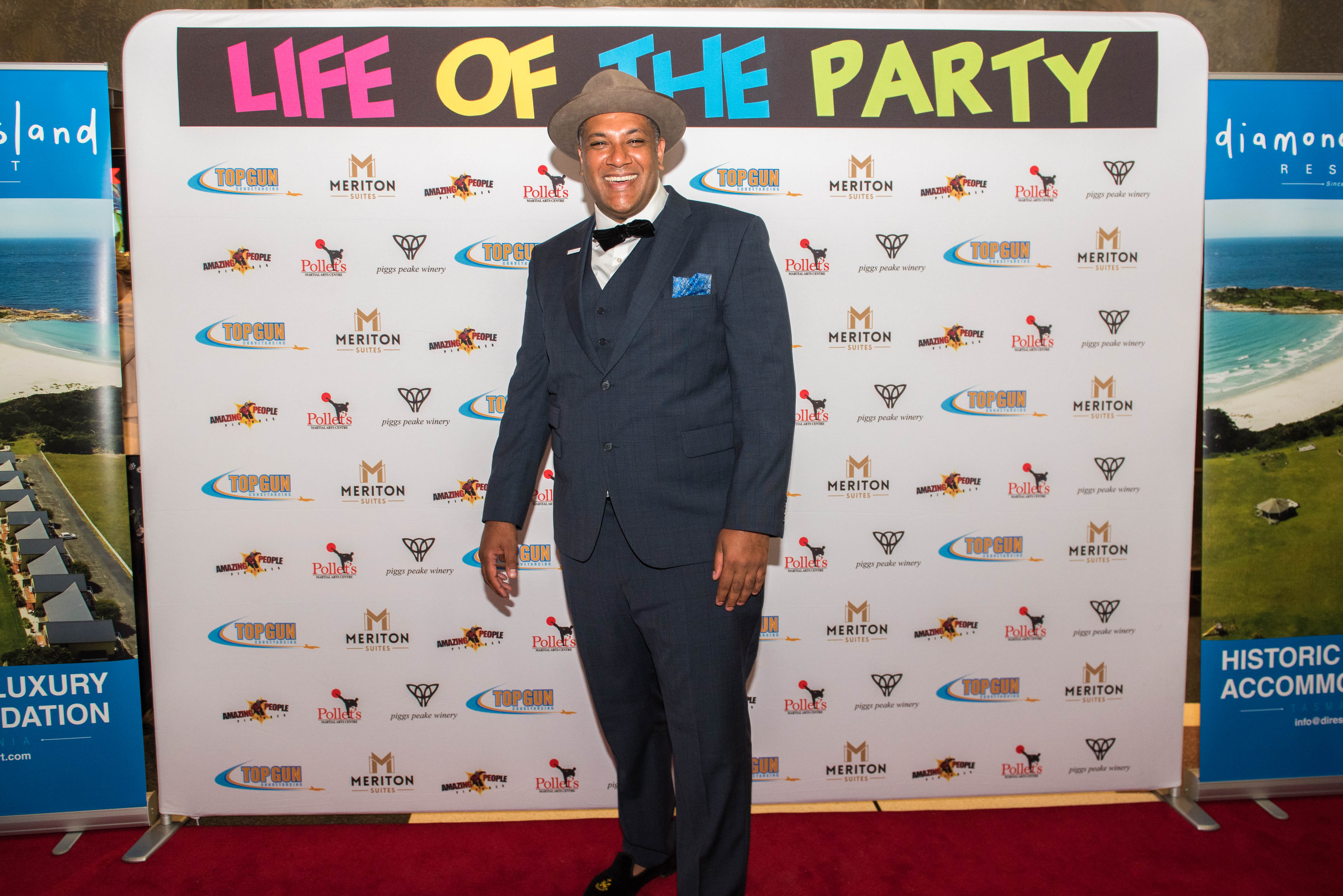 Michael Budd arrives at the red carpet event Sydney